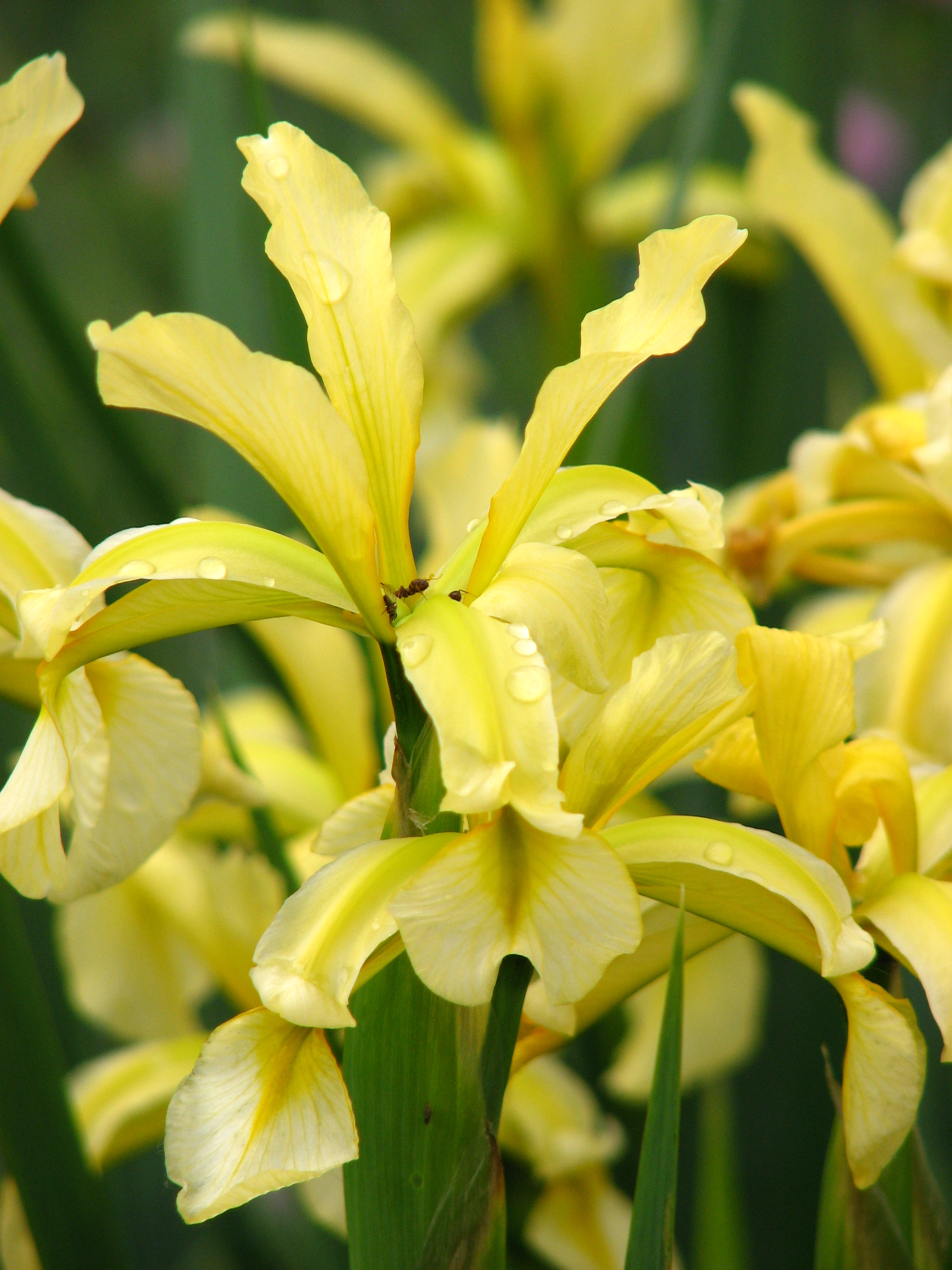 Iris halophila. From the collection of the Botanical Garden of Moscow State University (main area on the Sparrow Hills).